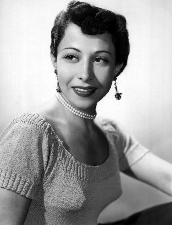 Photo of June Foray from the television program Smilin' Ed's Gang.